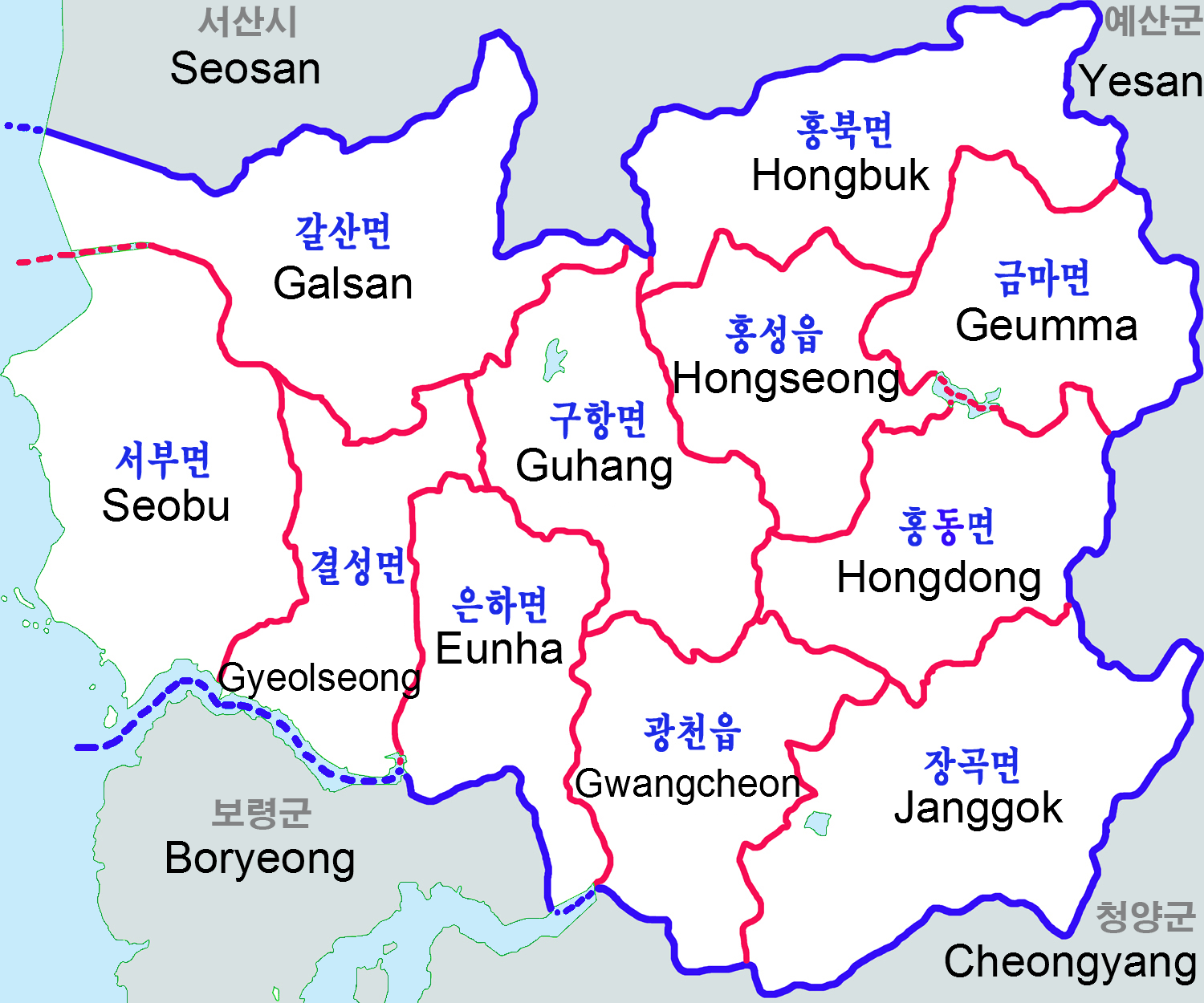 Administration map of Hongseong-gun